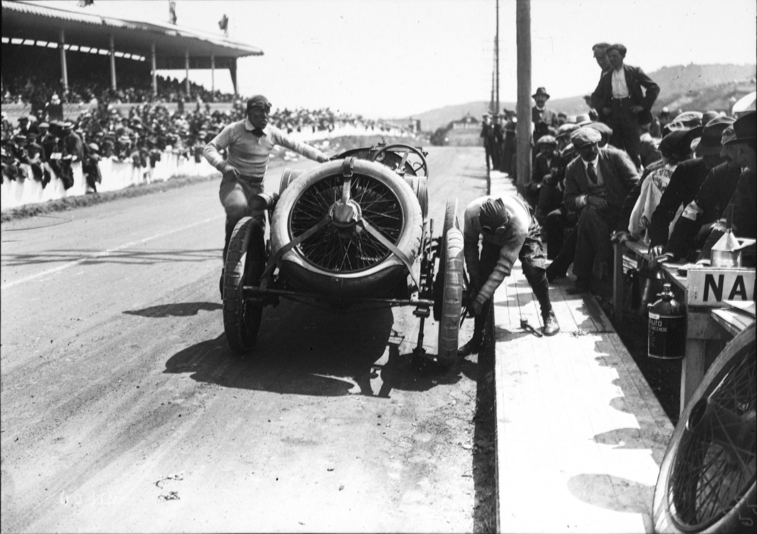 Dragutin Esser at the 1914 French Grand Prix